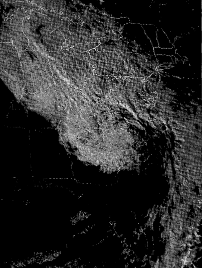 Satellite image of the storm system producing devastating flooding over the eastern United States in early November 1985